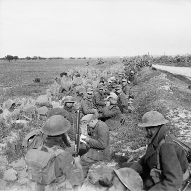 The British Army in Tunisia 1943 German prisoners and their guards wait in a roadside ditch during 6th Armoured Division's attack on the town of Pichon, 8 April 1943.